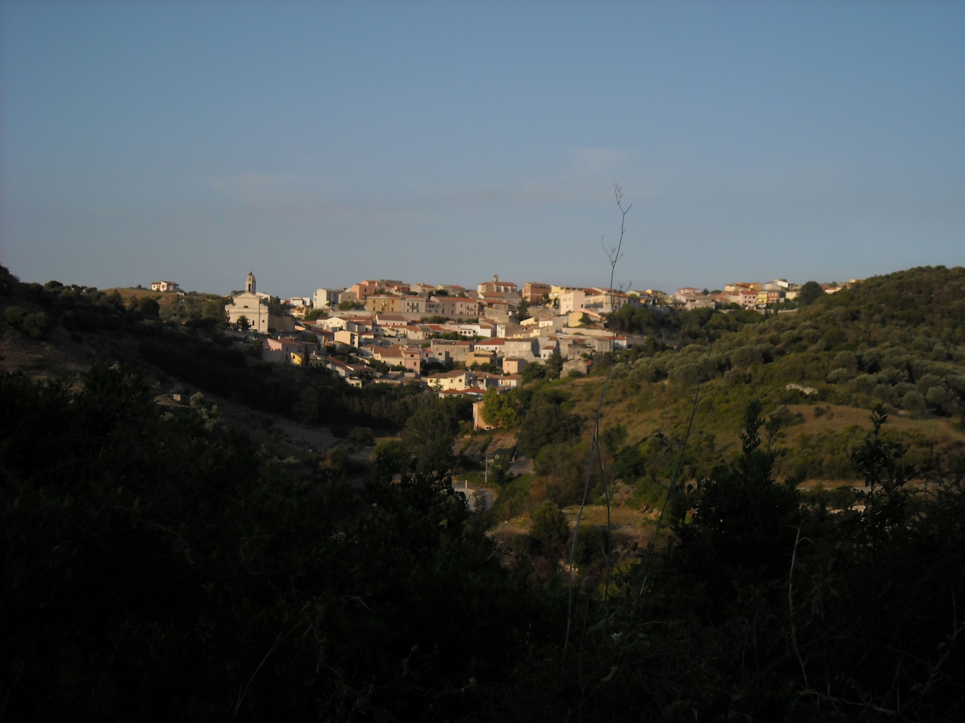 Codrongianos -Sardinia